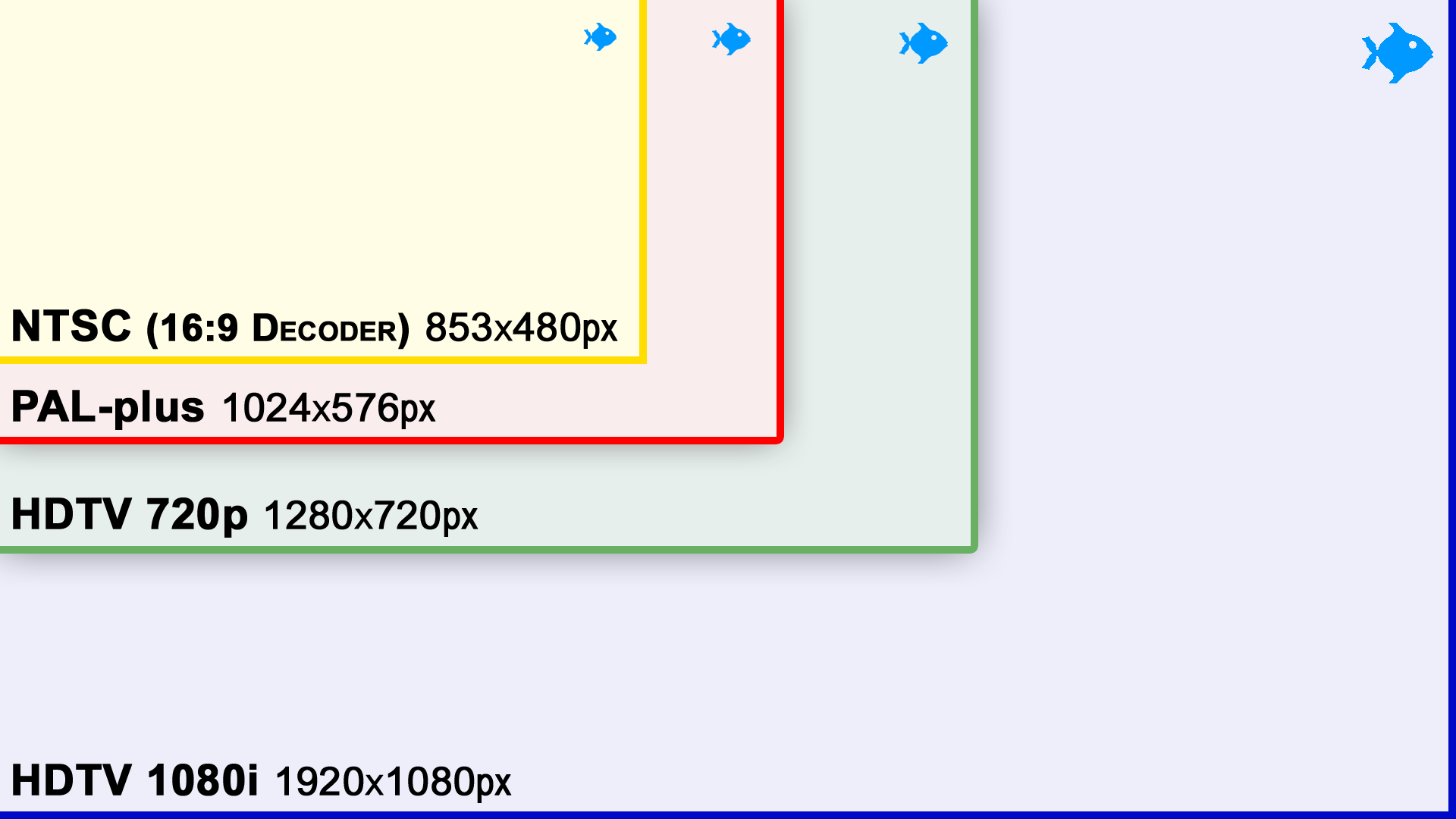 Comparison between several internation TV-standards. This diagram image could be recreated using vector graphics as an SVG file. This has several advantages; see Commons:Media for cleanup for more information. If an SVG form of this image is available, please upload it and afterwards replace this template with vector version available|new image name .